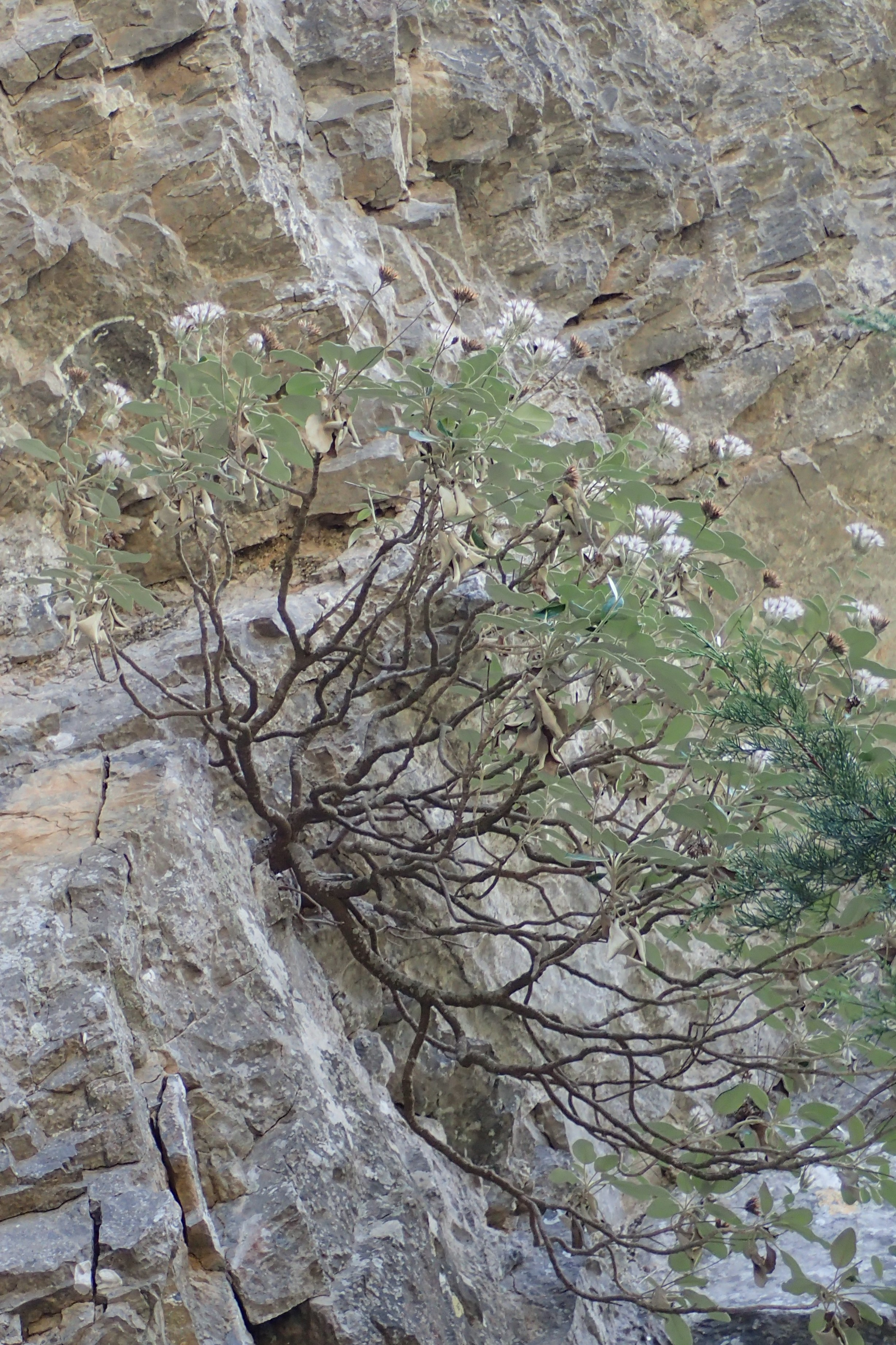 Staehelina petiolata in Impros, Crete, Greece